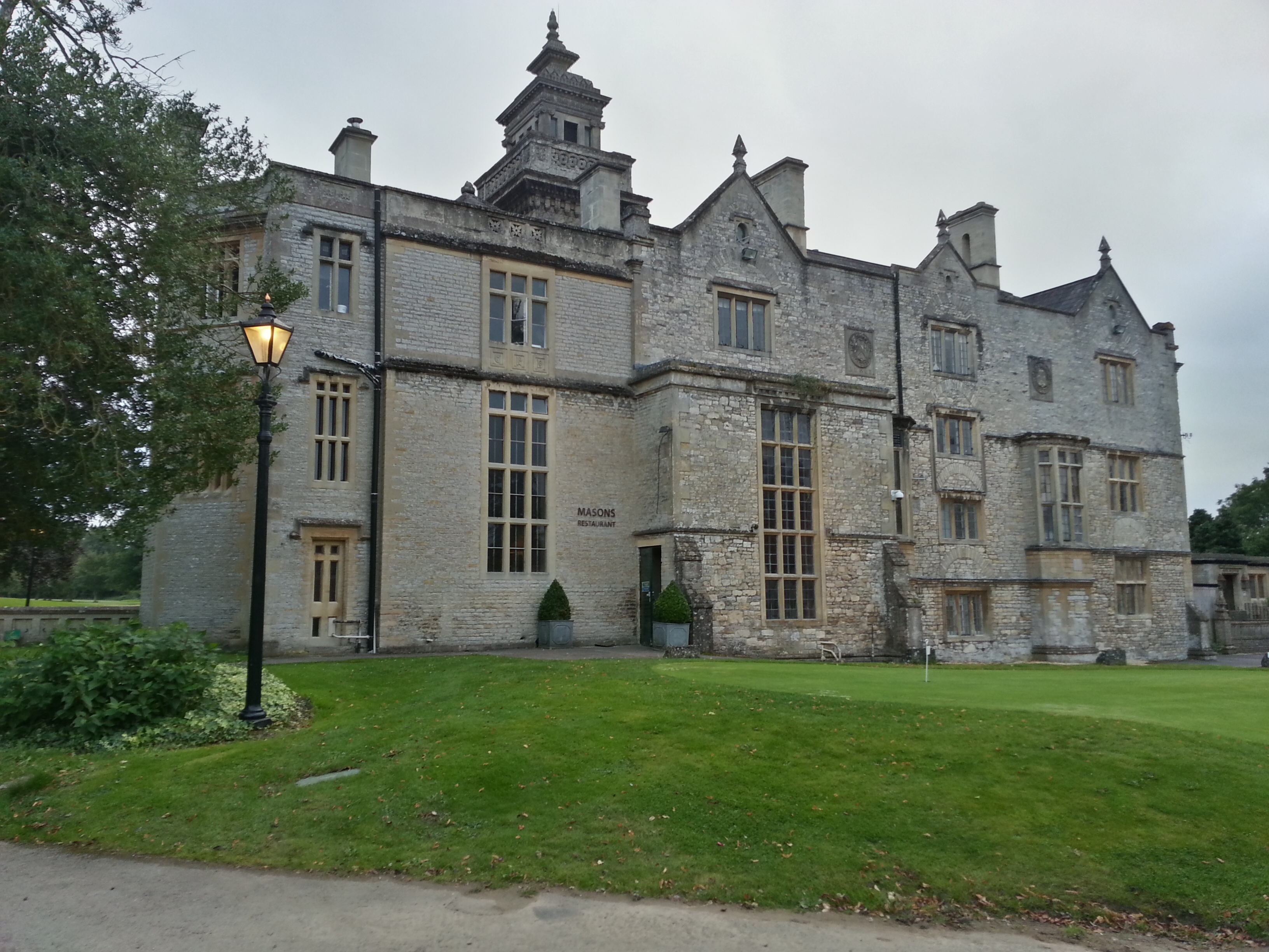 Tracy park golf and country hotel, masons restaurant, Wick, Nr Bath, UK